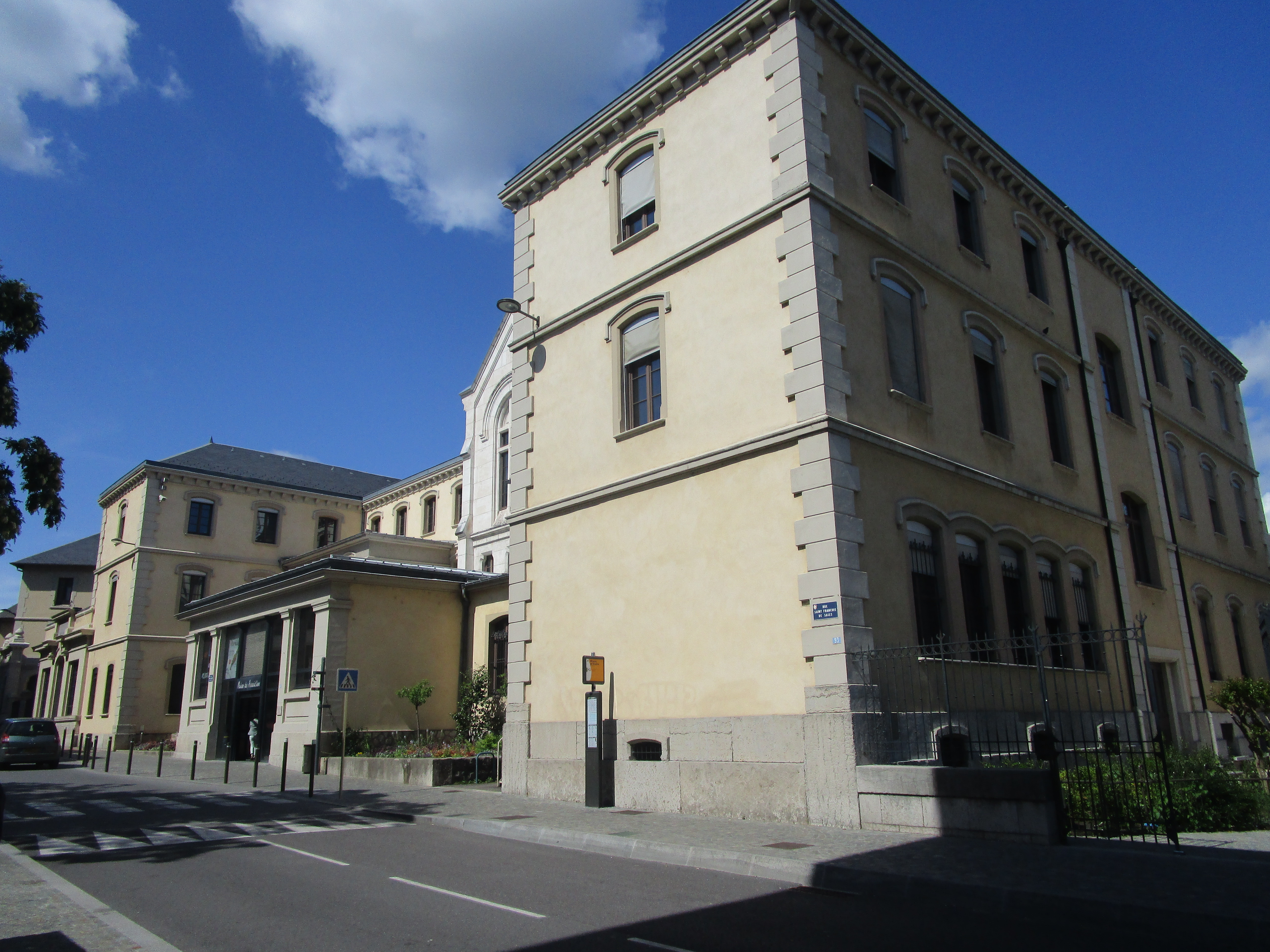 The former vocational school of Chambéry, now converted as the associations house, on May 9, 2015.